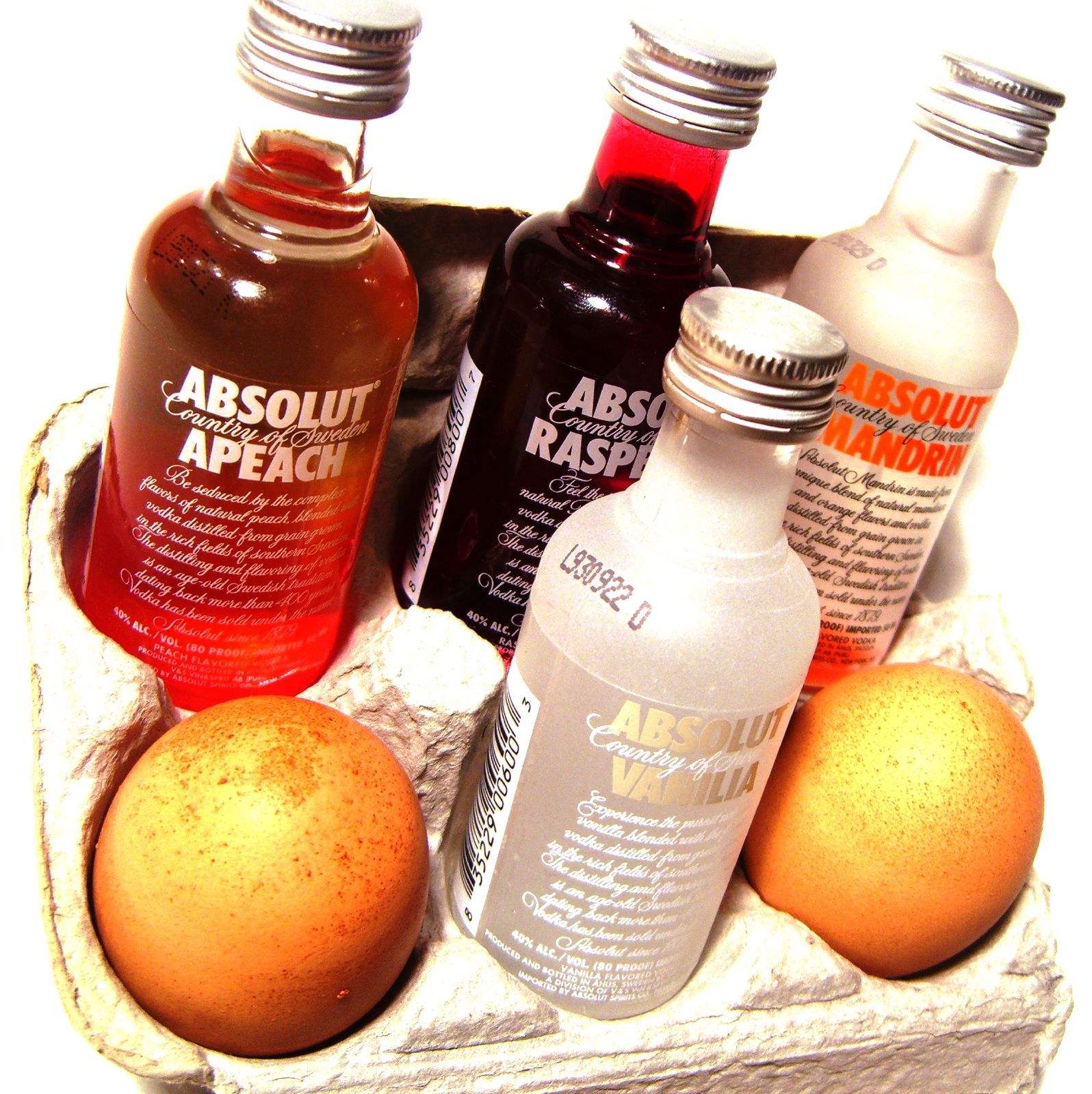 Bottles of flavoured ABSOLUT vodka.